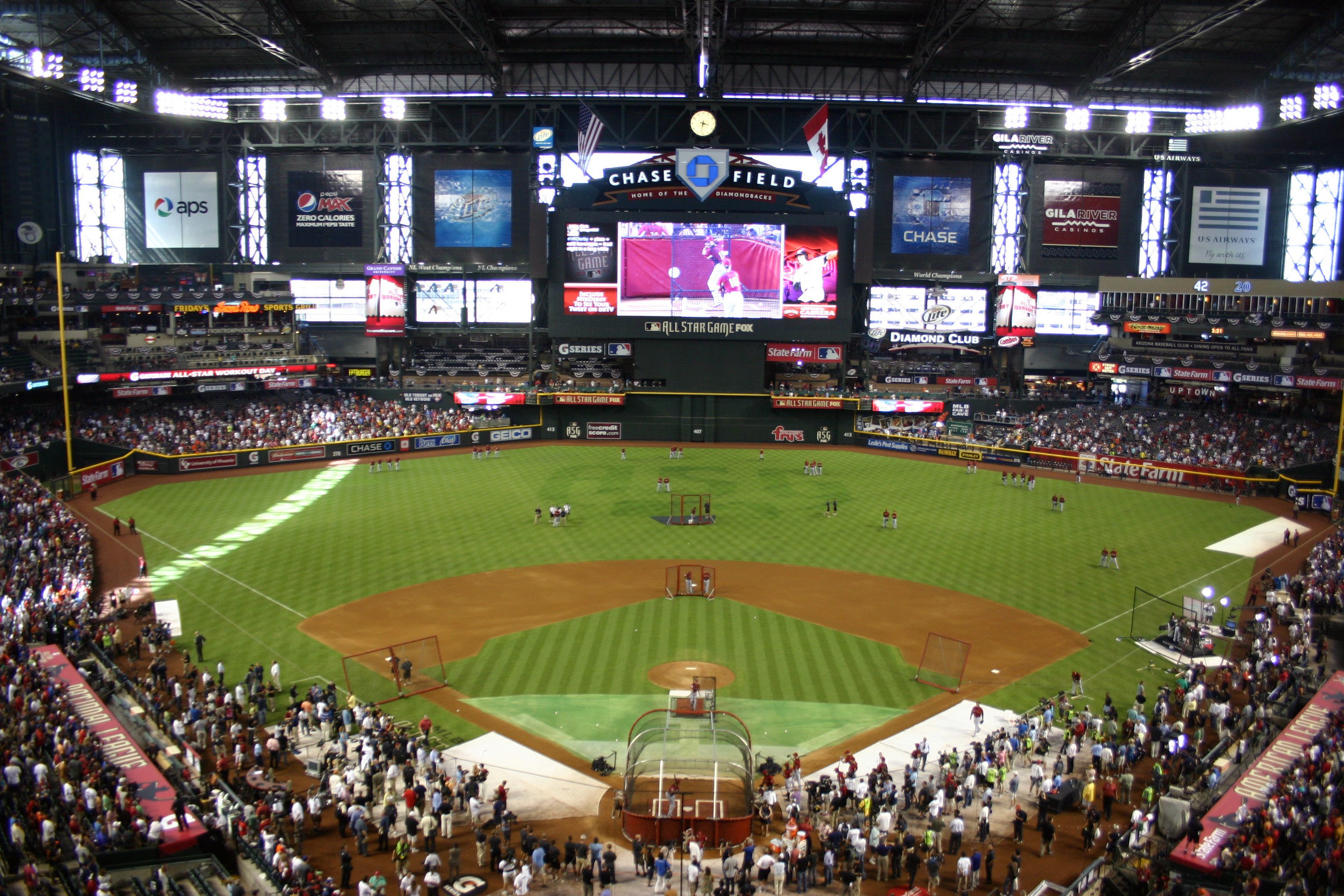 The view from the upper level behind home plate inside Chase Field during the 2011 All Star Workout.